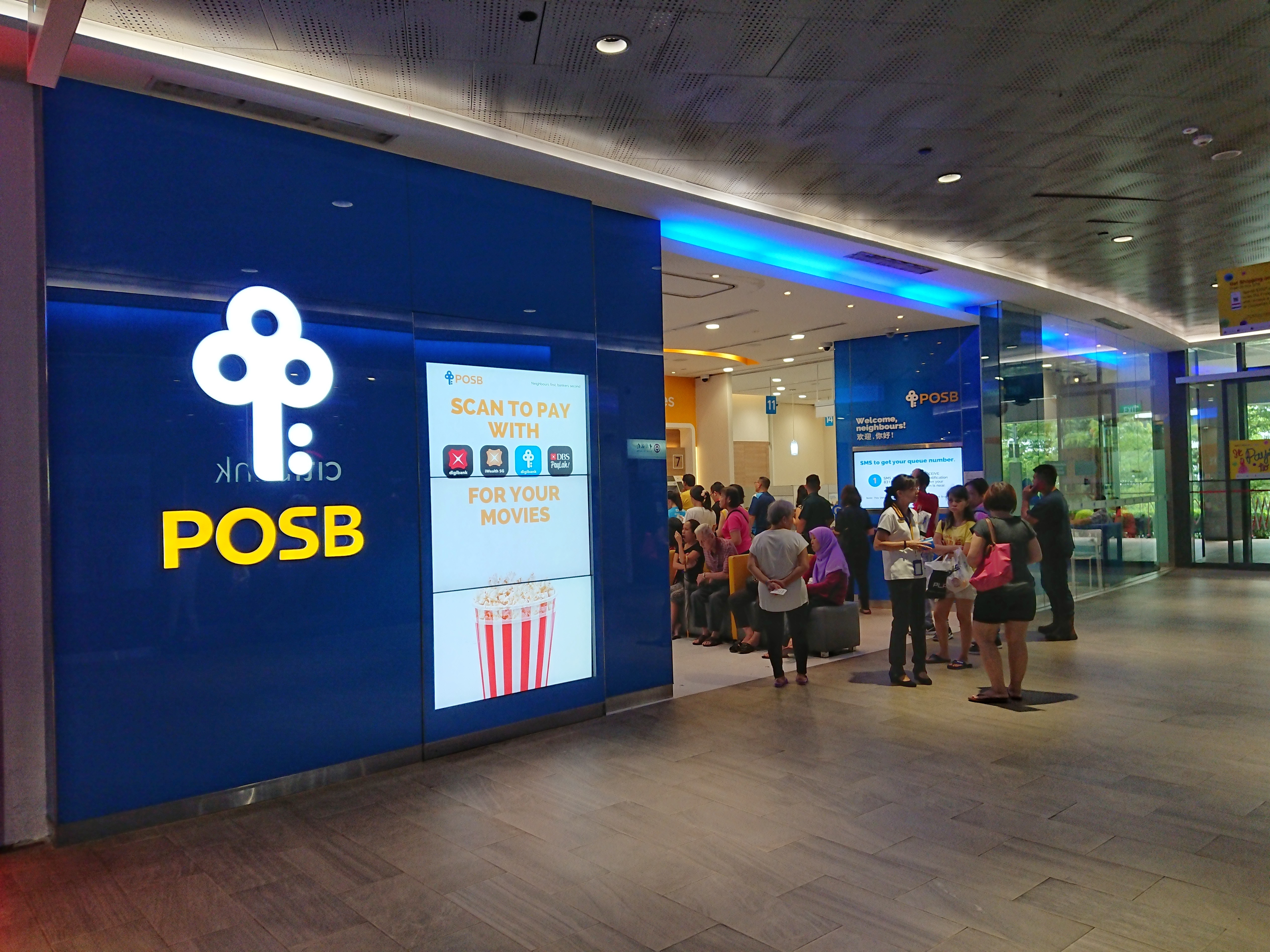 POSB Waterway Point branch. Taken with Sony Xperia XZ Premium.